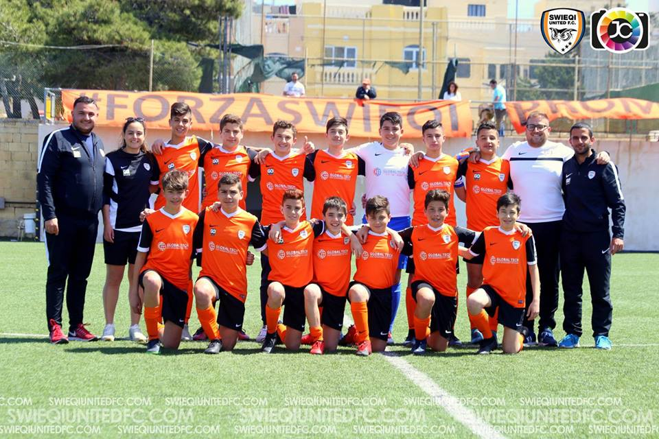 Swieqi United's Under 15s during the 2017-18 season.